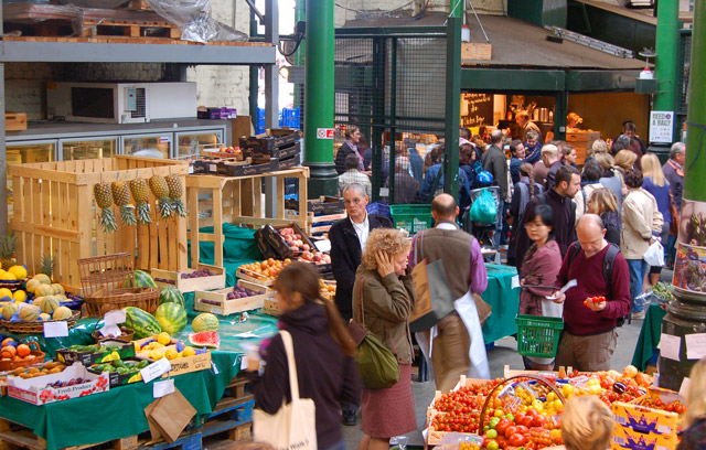 Crowds shopping at Borough market, south London